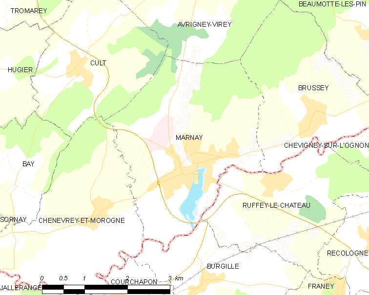 Map of French municipality